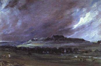 Old Sarum by John Constable, 1829.